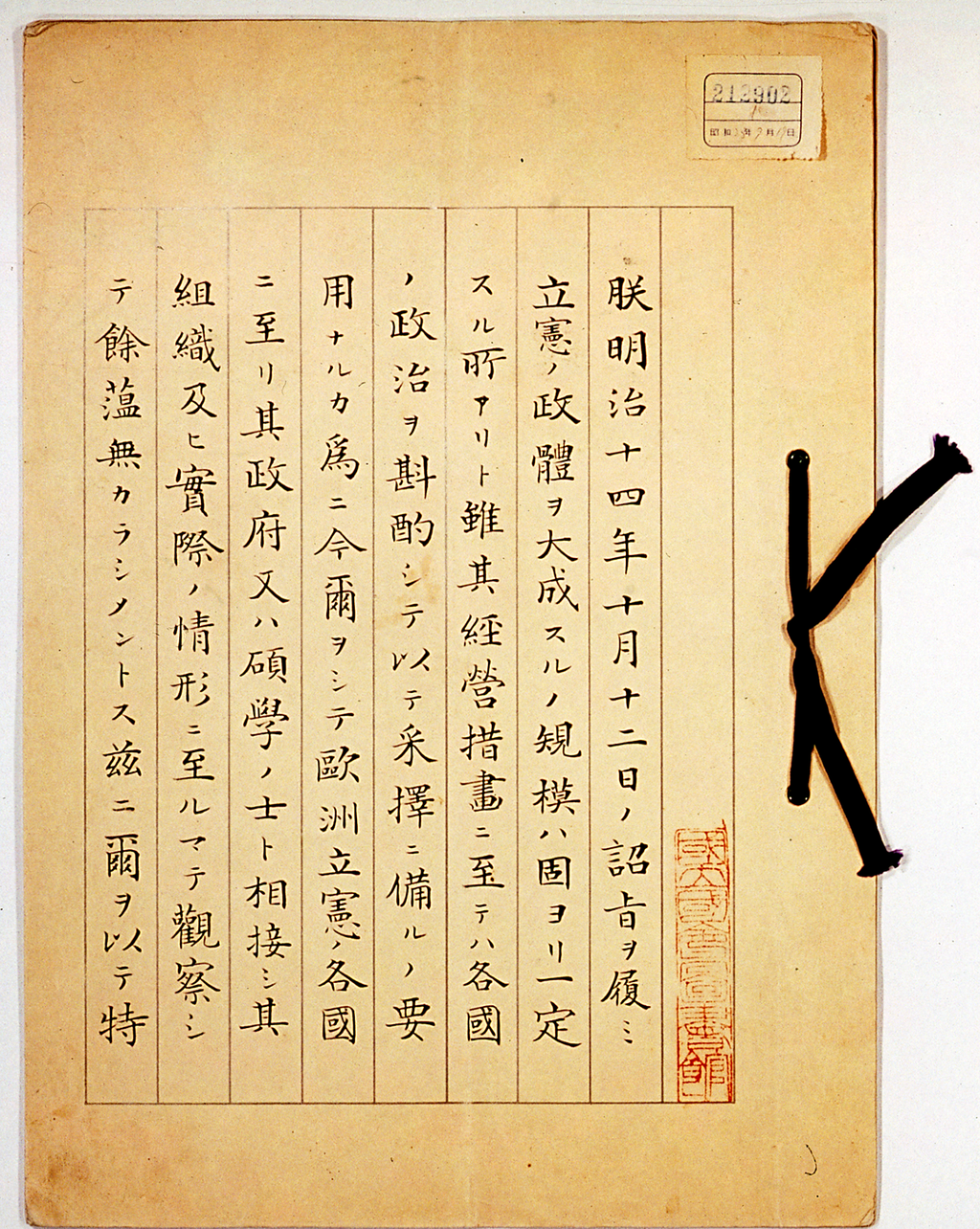 Imperial Order to Dispatch Mission Head Plenipotentiary Itō to Europe to Study Constitutional Forms of Government